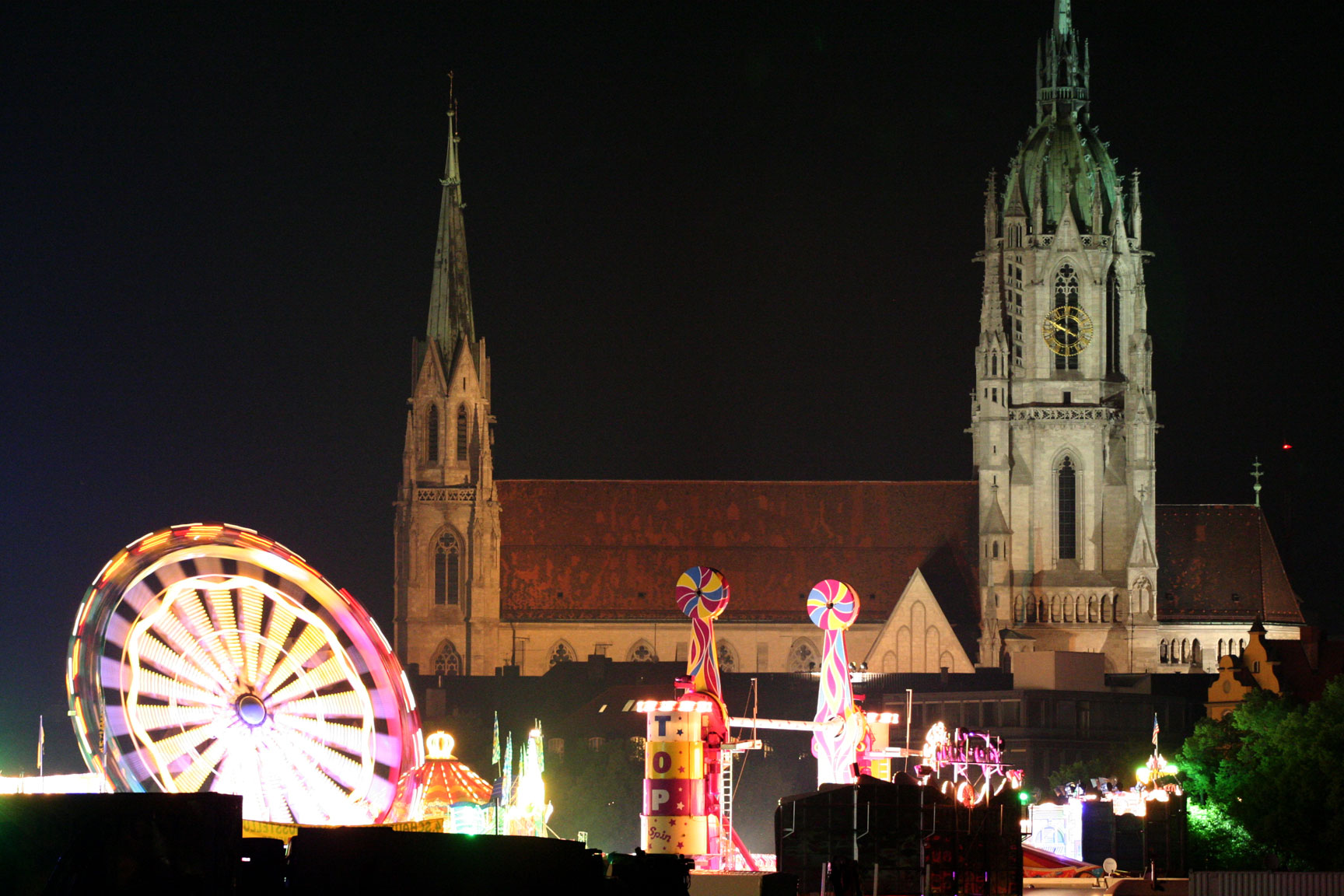 Munich Spring Fair by night, in the background the St. Paul's church